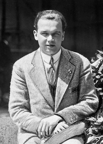 Caracciola, Rudolf - Racing Driver, Germany 30.01.1901-28.09.1959 with his racing car - Photographer: Hugo Kuehn- Published by: 'B.Z. am Mittag' 01.07.1928